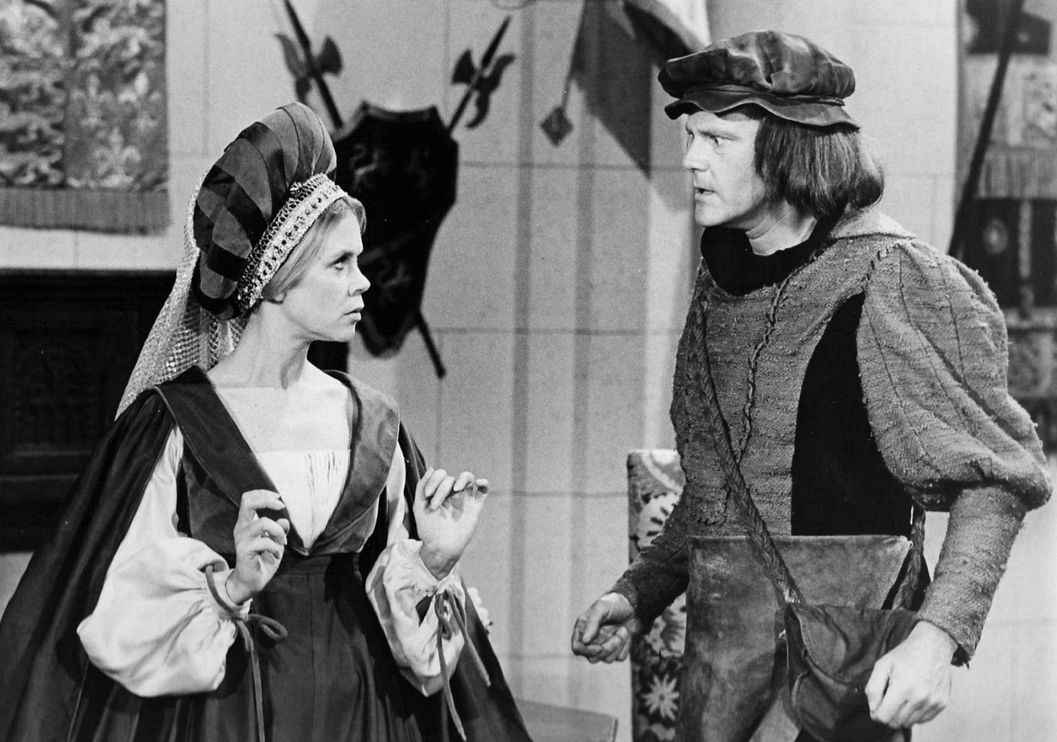 Photo of Elizabeth Montgomery and Dick Sargent from the television program Bewitched. In this episode, Samantha gets sent back in time to the era of Henry VIII, where she is a minstrel in a traveling show, and also in danger of becoming one of Henry's wives. Darrin gets someone to "zap" him back to try to help her, but finds that Samantha doesn't know who he is.